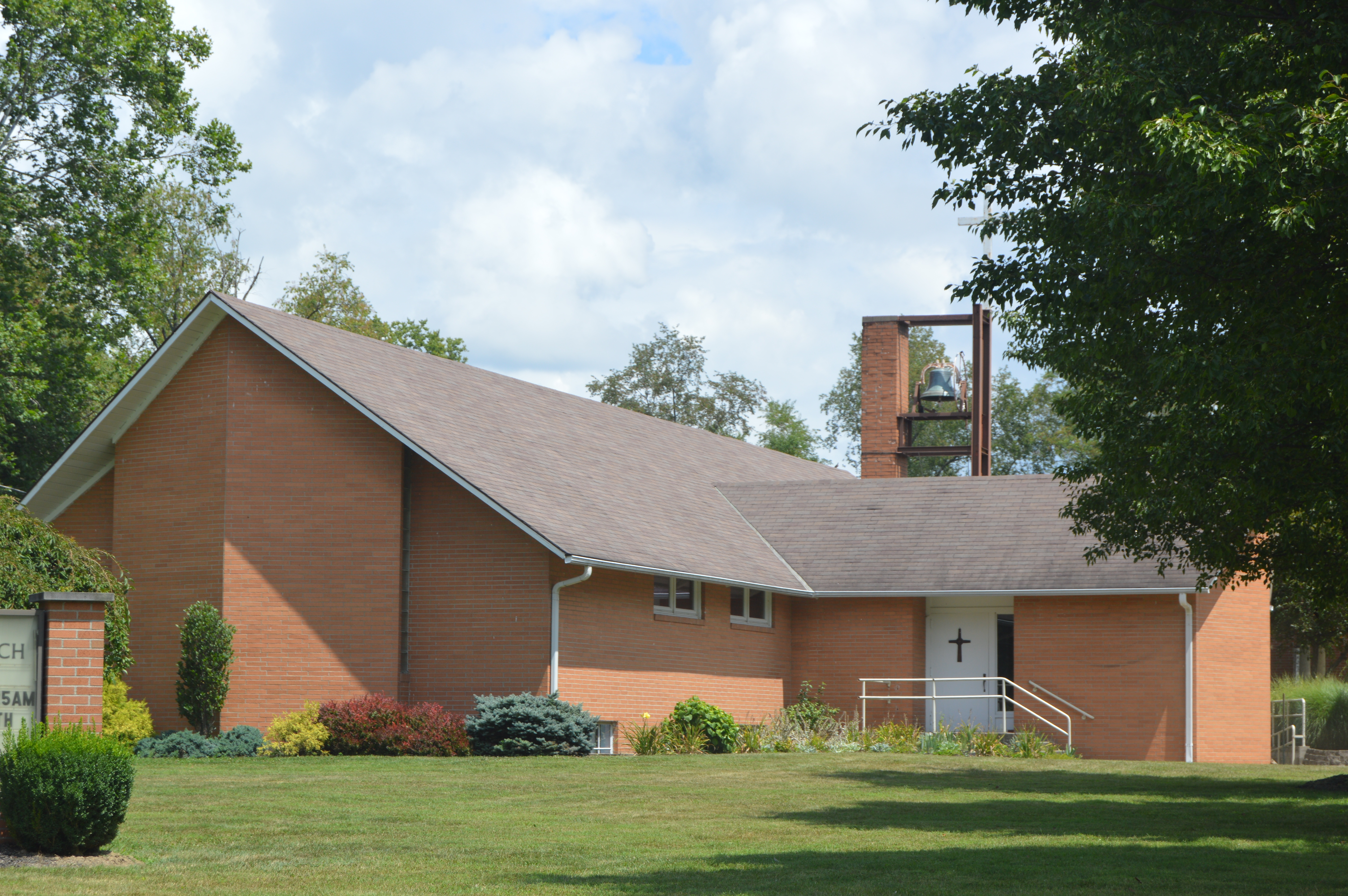 Front of the Hanover Presbyterian Church, located at 732 N. Main Street in Hanover, Ohio, United States. It was built in 1960.